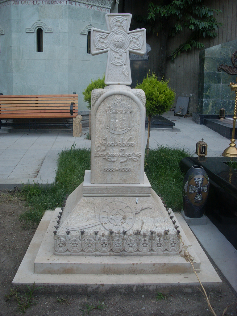 Grave of a Georgian military commander, regarded as a National Hero of Georgia Kakutsa Cholokashvili at Mtatsminda Pantheon in Tbilisi